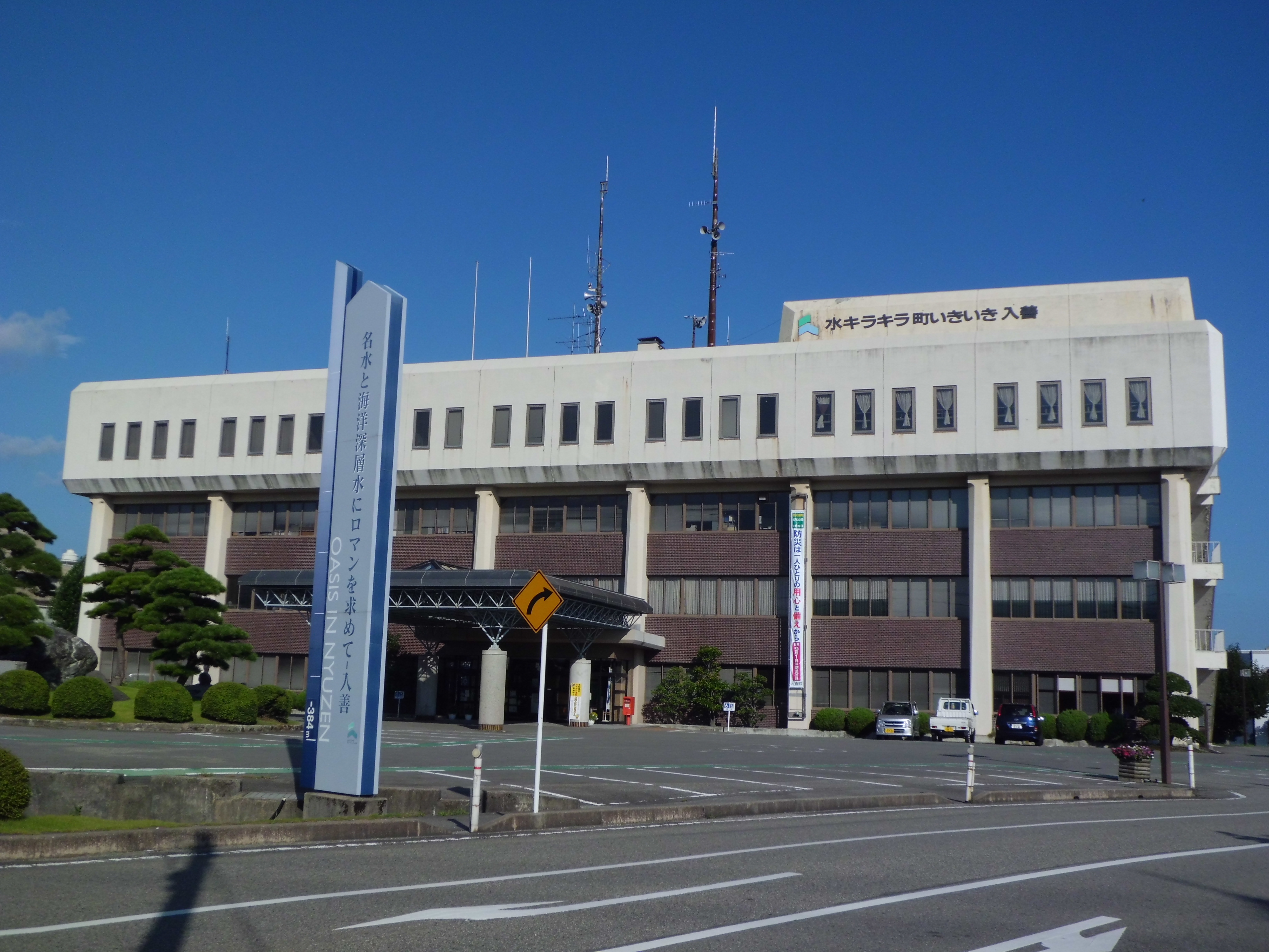 Nyuzen Town Office in Toyama prefecture, Japan.